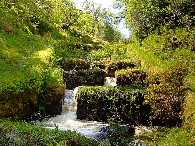 A Fish Ladder on the Strath Carnaig River A Fish ladder on the Strath Carnaig River, this will let the Salmon get right up to Loch Buidhe.